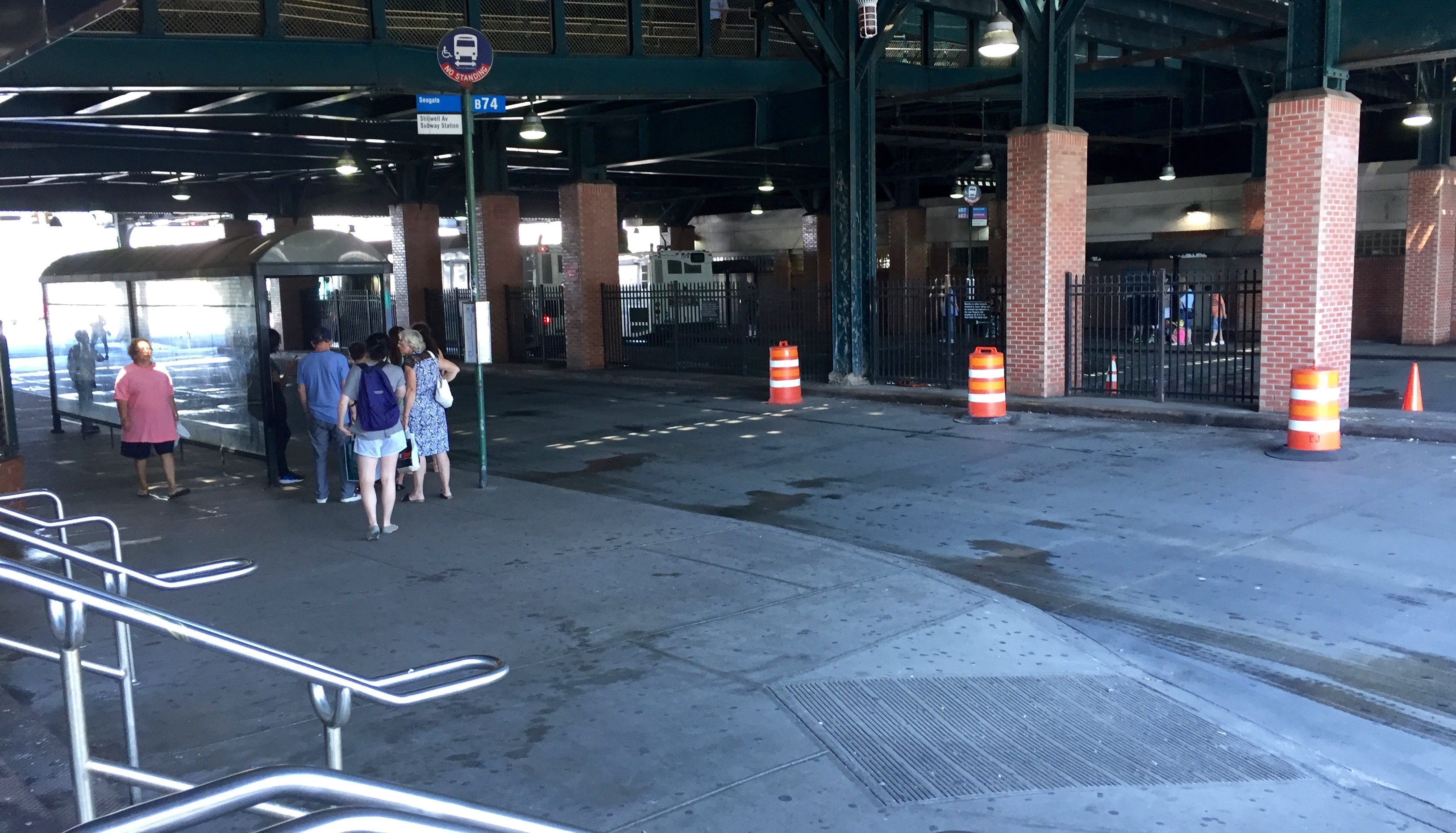 Bus stop for the B64/68/82 at Coney island - Stillwell Avenue.